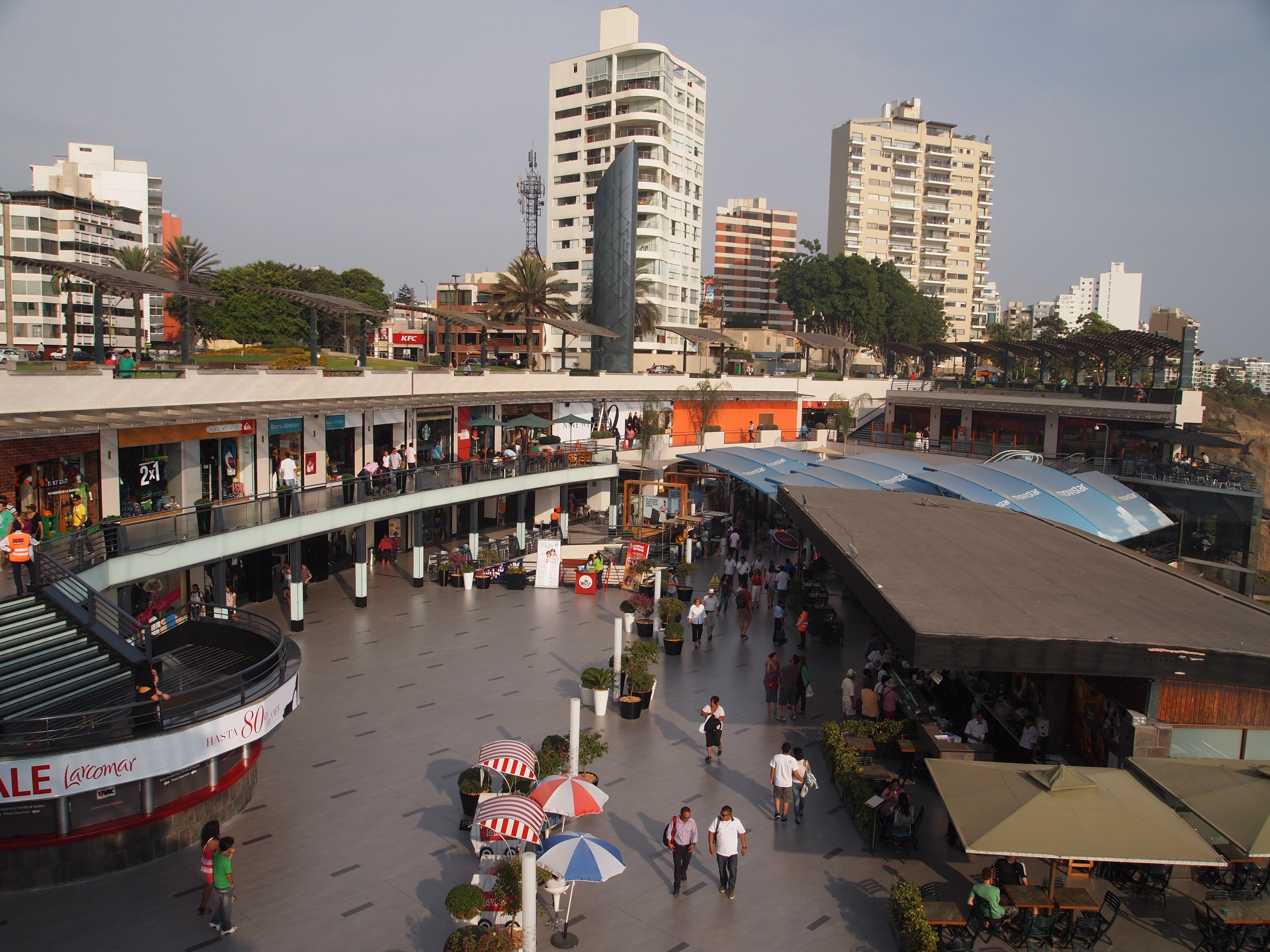 Miraflores district of Lima, Peru.